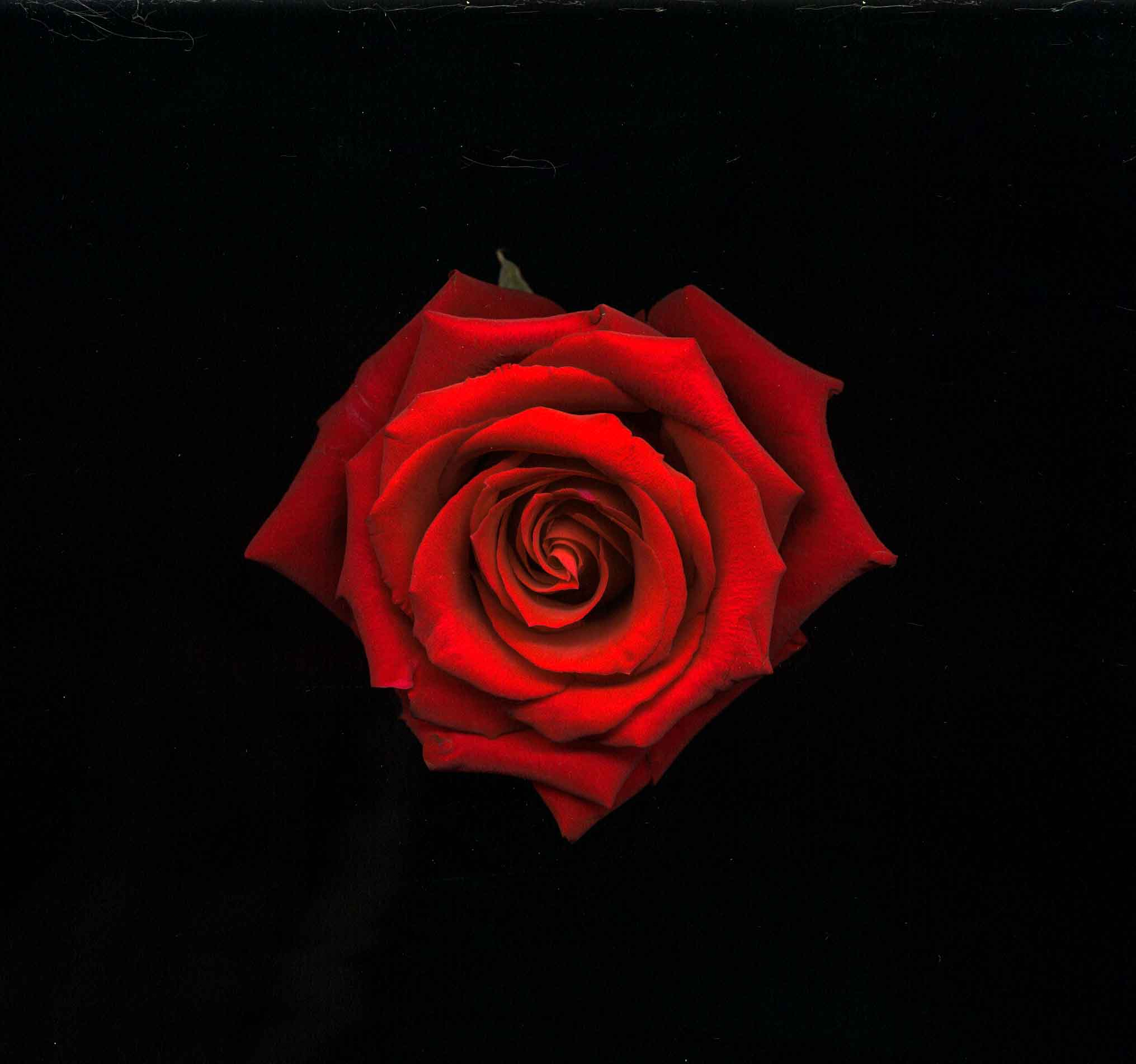 Utilizing wire to suspend the object, the rose is not smashing itself on the glass.